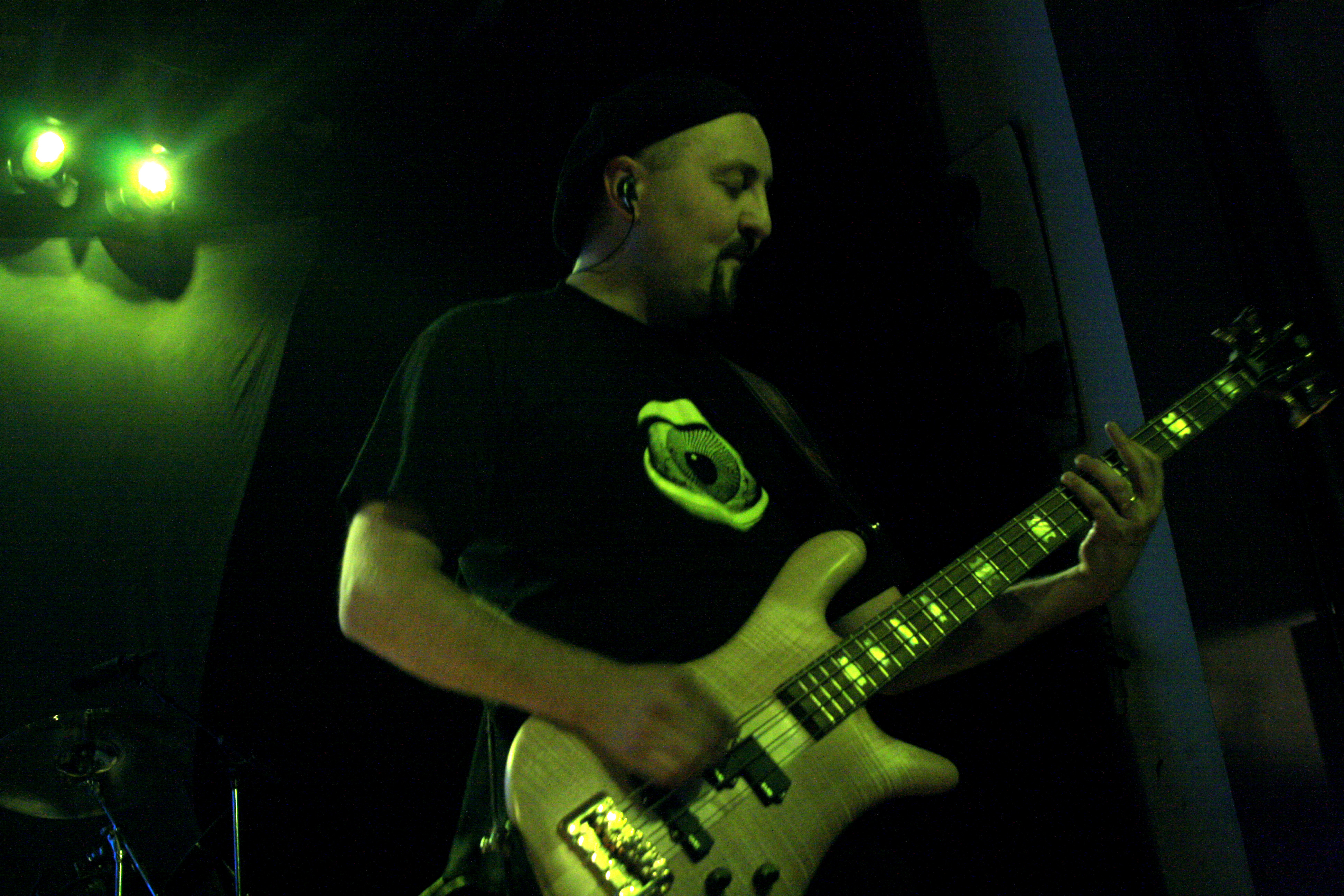 Colin Edwin onstage with Porcupine Tree at State Theatre, Falls Church, VA - October 2007.